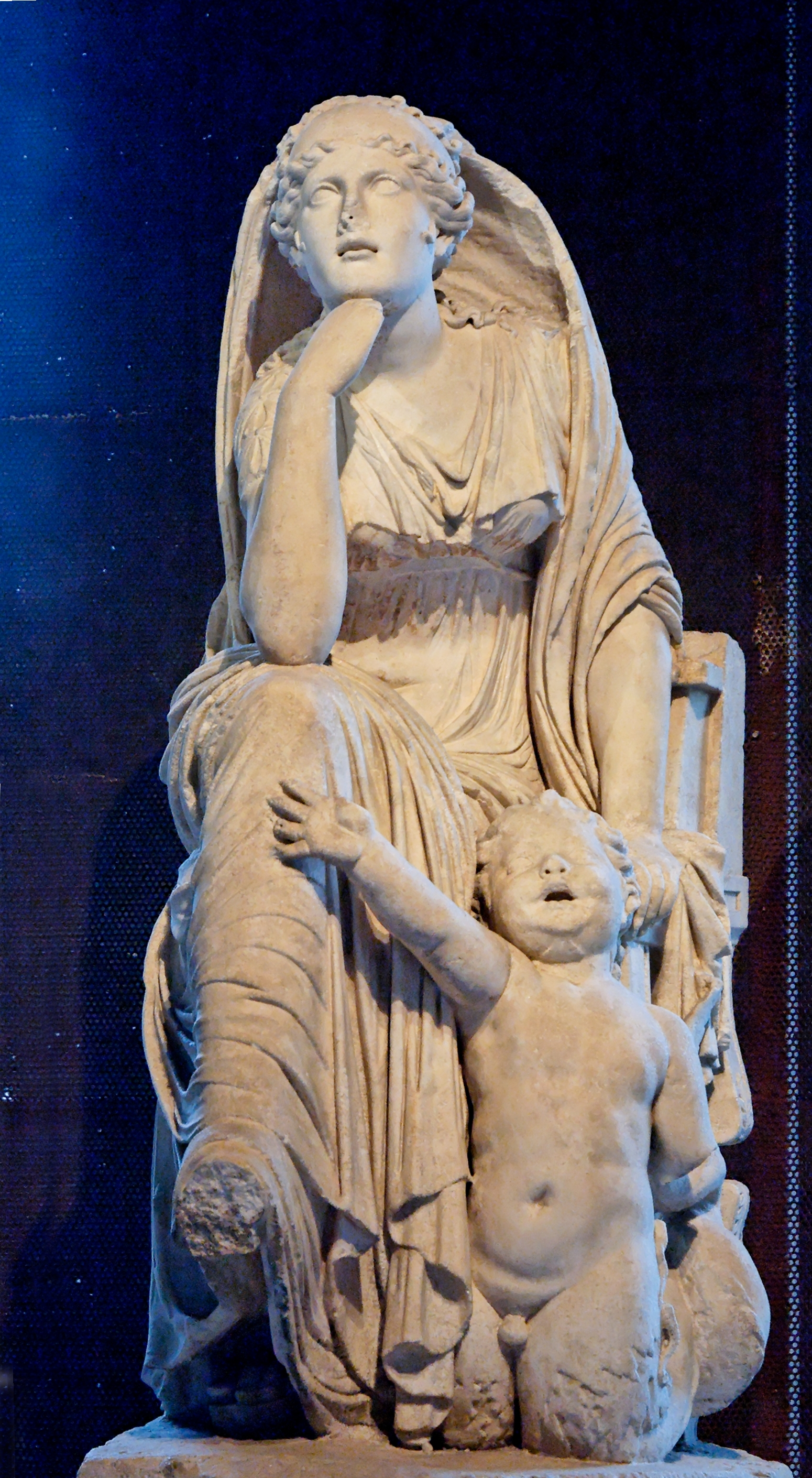 Statue of Thetis with a triton. Thasian marble, Roman copy from a Greek original of the 2nd century BC. A recent reconstruction identifies the statue as a part of the sculptural group by Skopas of Thetis giving her son Achilles new weapons described by Pliny. According to this theory, the statue known as “Ludovisi Ares” would actually represent Achilles.